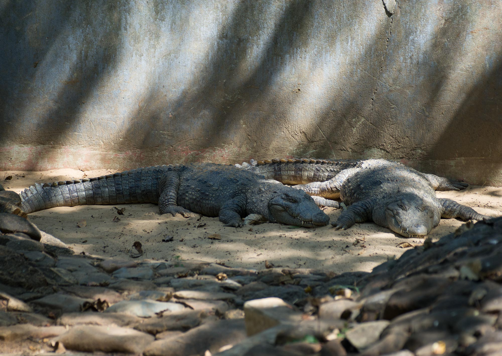 Болотный крокодил а зоопарке Бондла